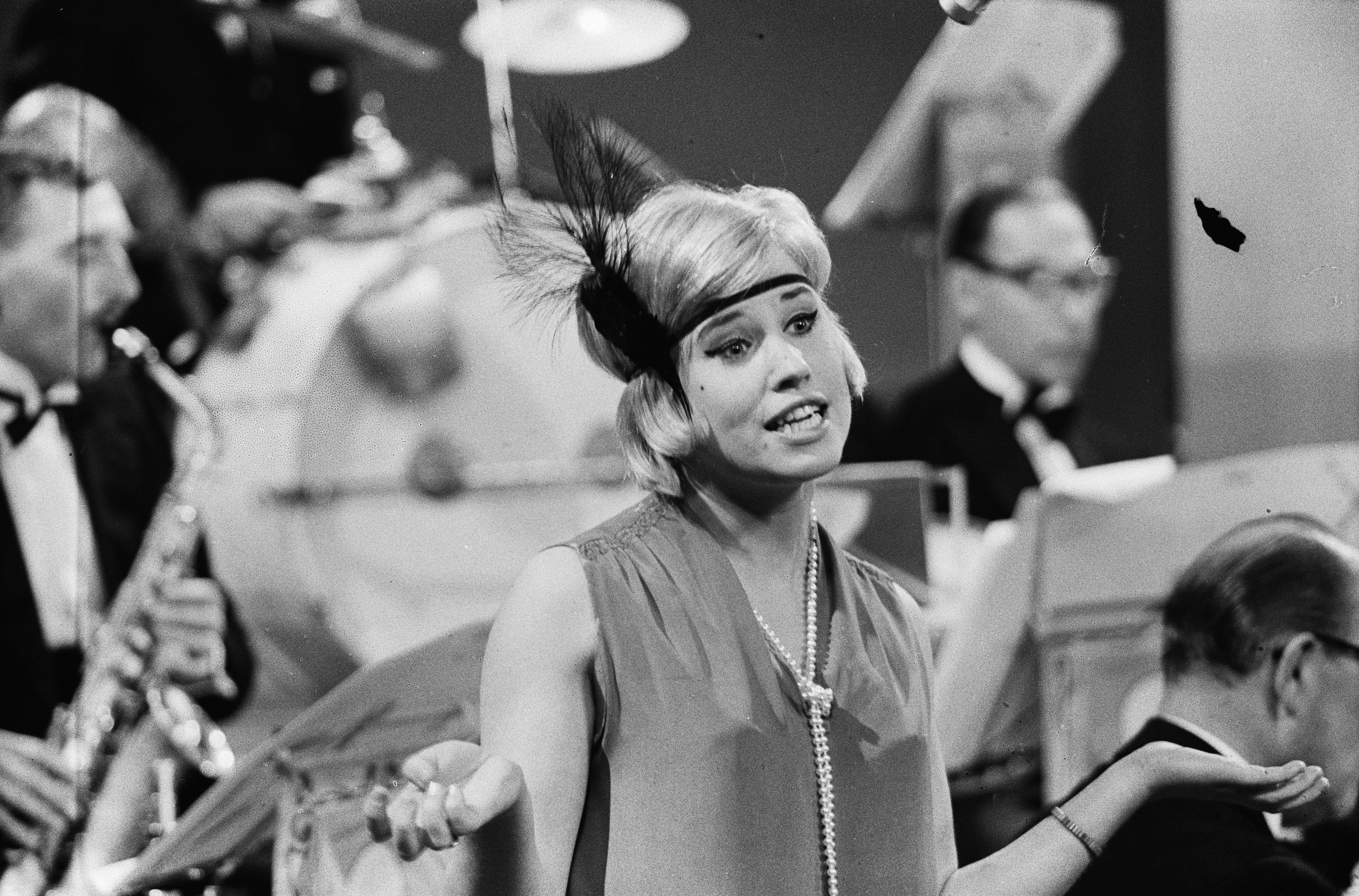 Jenny Arean & The O.K. Woblers. Firato, Amsterdam, 13 Sept. 1963